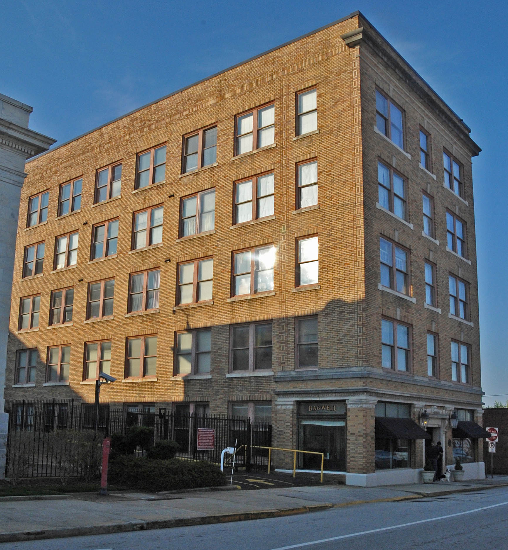 OPENED IN 1915 AS THE CITY’S FIRST SKYSCRAPER AND TALLEST IN NORTH GEORGIA. NOW HOUSES APARTMENTS